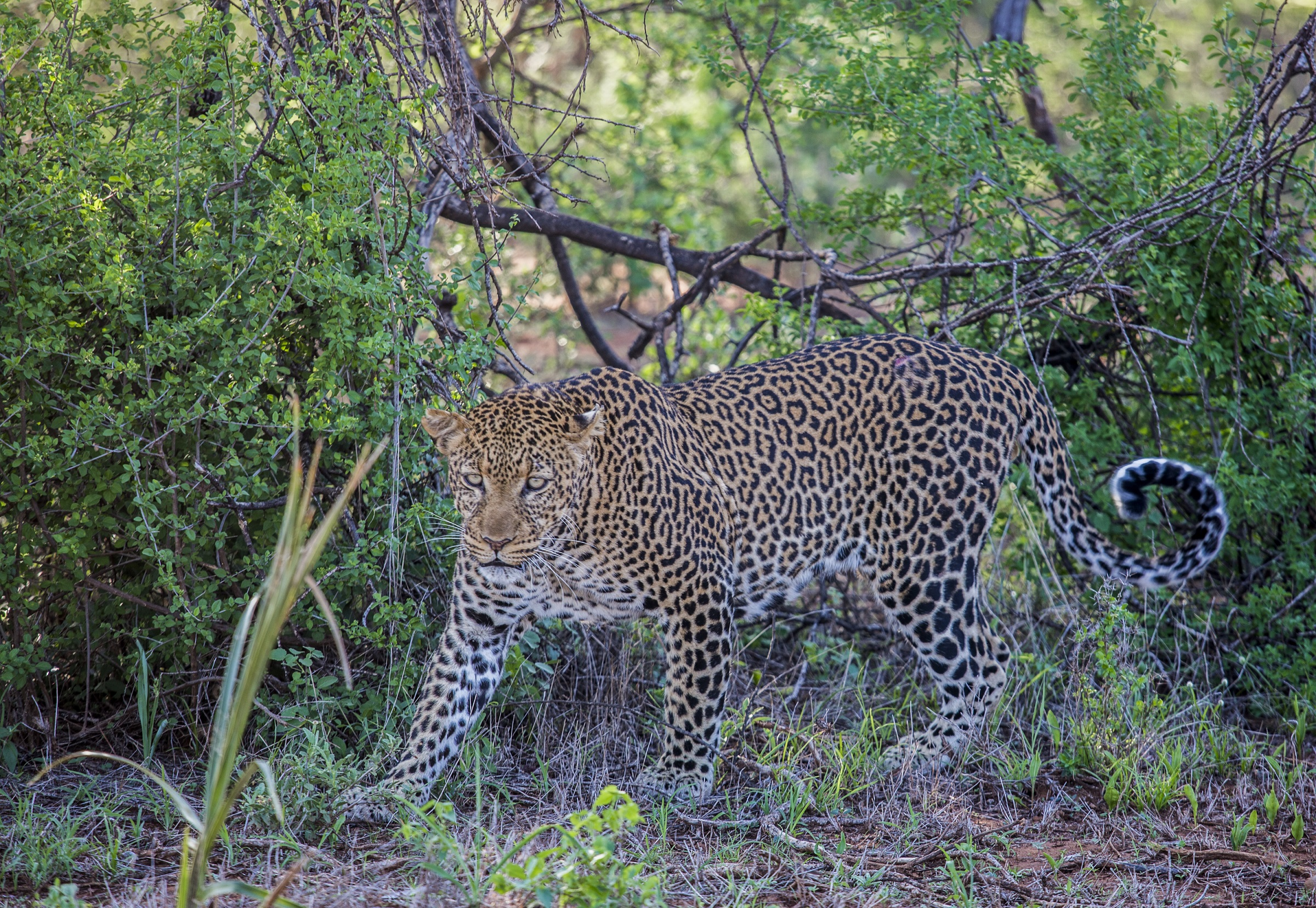 Leopard, Tsavo West National Park, Kenya